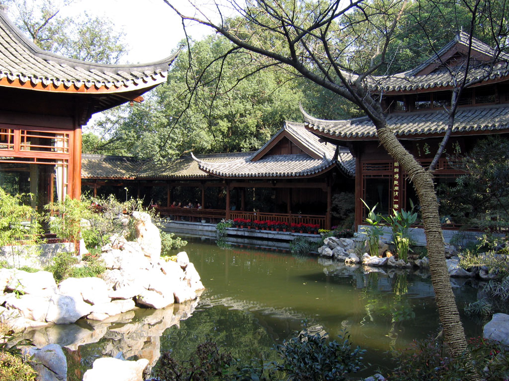 China Hangzhou Westlake, buildings